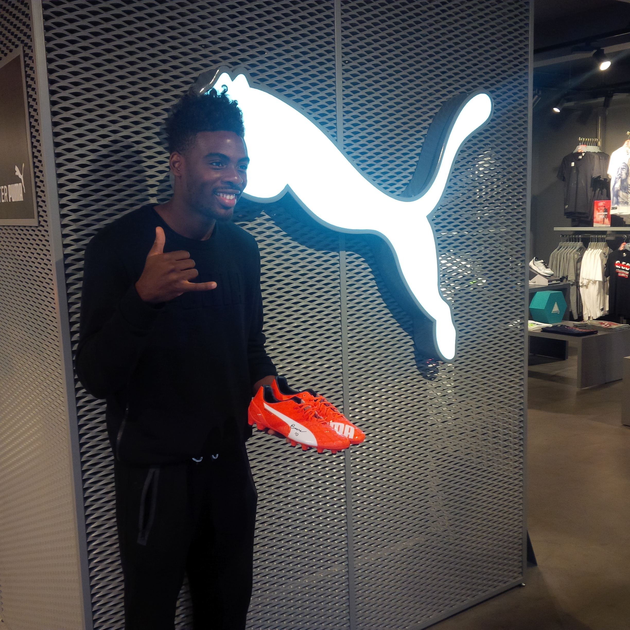 Nathan Oduwa at the London Puma store signing, August 2015